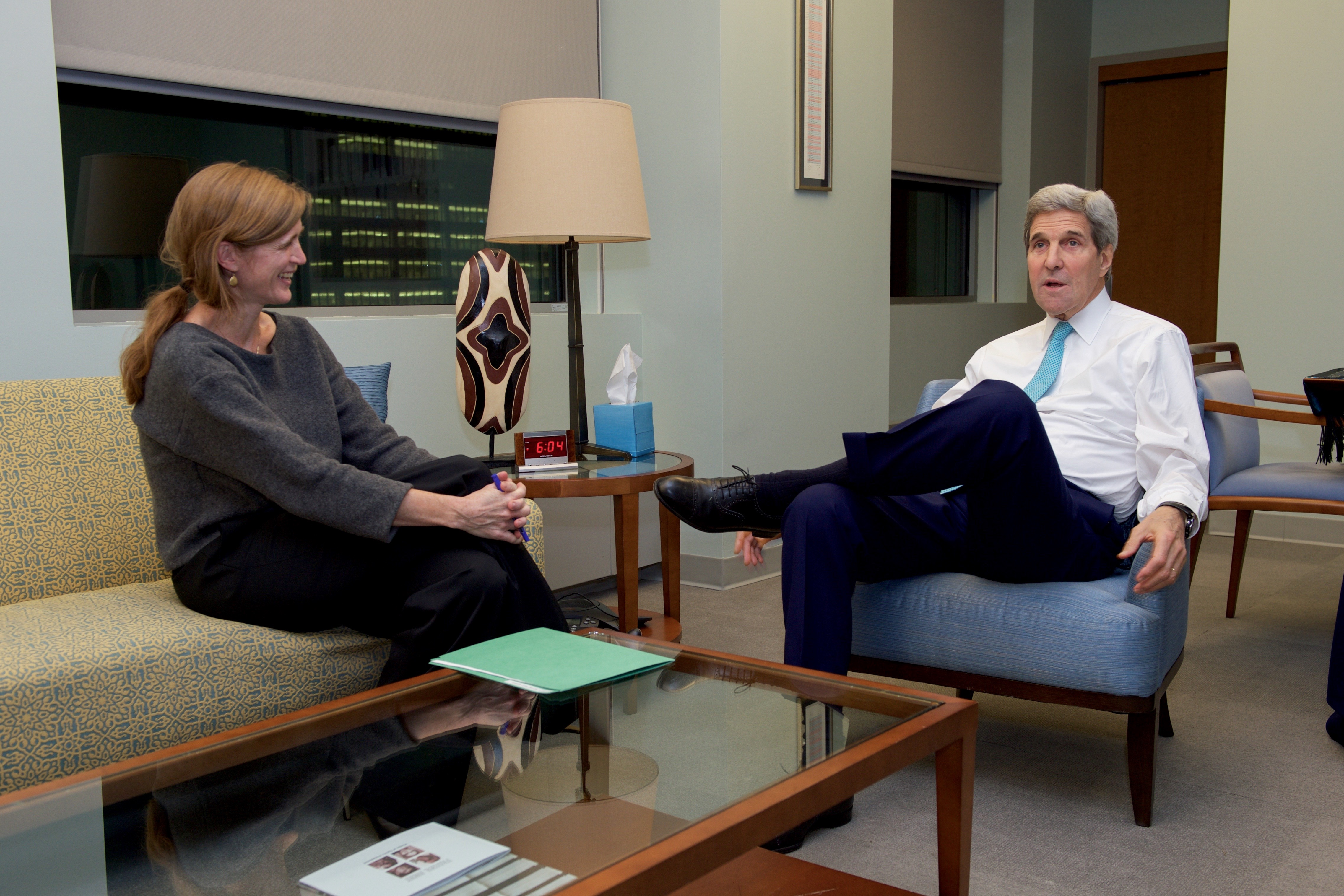 U.S. Secretary of State John Kerry chats with U.S. Permanent Representative to the United Nations Ambassador Samantha Power on November 11, 2015, at the USUN Mission in New York, N.Y., before the Secretary delivered a speech at the “Battle for Zionism at the U.N.: Marking 40 Years Since the Historic Speech of President Chaim Herzog.” [State Department photo/ Public Domain]